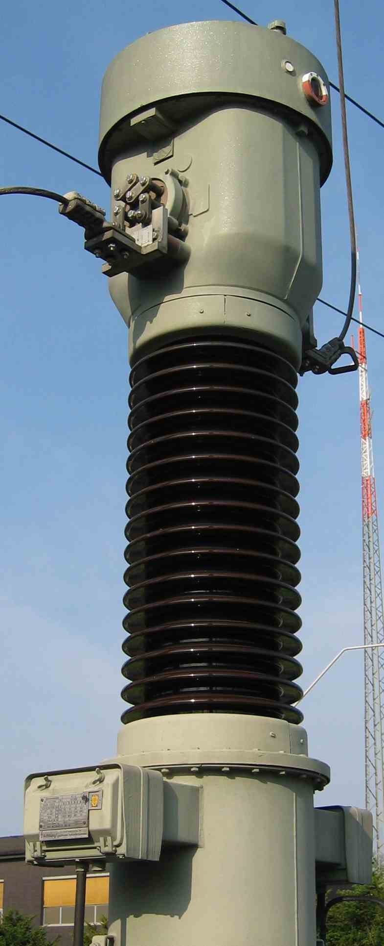 110kV current transformer.